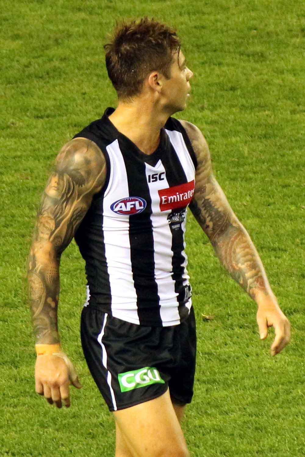 St_Kilda_V_Collingwood_028